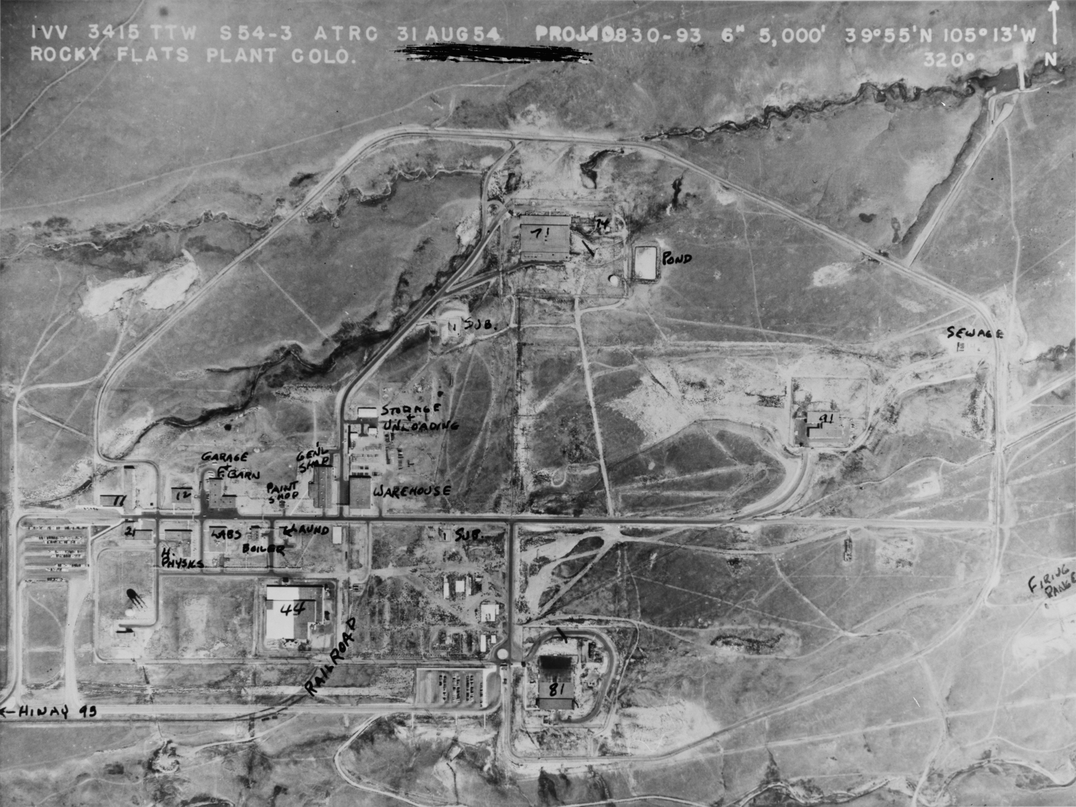 Rocky Flats Plant. Aerial view of the Rocky Flats Plant from directly overhead in 1954. In 1950, Dow Chemical Company was chosen by the Atomic Energy Commission to establish the Rocky Flats Plant as an atomic bomb trigger fabrication facility. The criteria for siting such a plant included a location west of the Mississippi, north of Texas, south of the northern border of Colorado, and east of Utah; a dry moderate climate; a supporting population of at least 25,000 people; and accessibility from Los Alamos, NM, Chicago, IL, and St. Louis, MO. Twenty-one areas in the United States were suggested; seven locations were screened in the Denver area. This four-square mile area was selected and construction began in 1951.